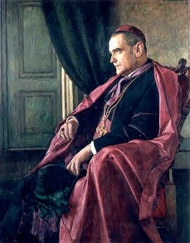 Paul Graf (Count) Huyn